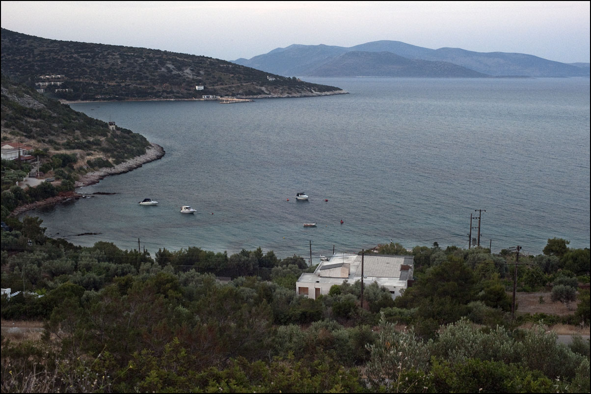 Port of Agia Marina / Grammatiko, Attica, Greece. From this port there is a ferry connection between Attica and Evia (Nea Styra) island.